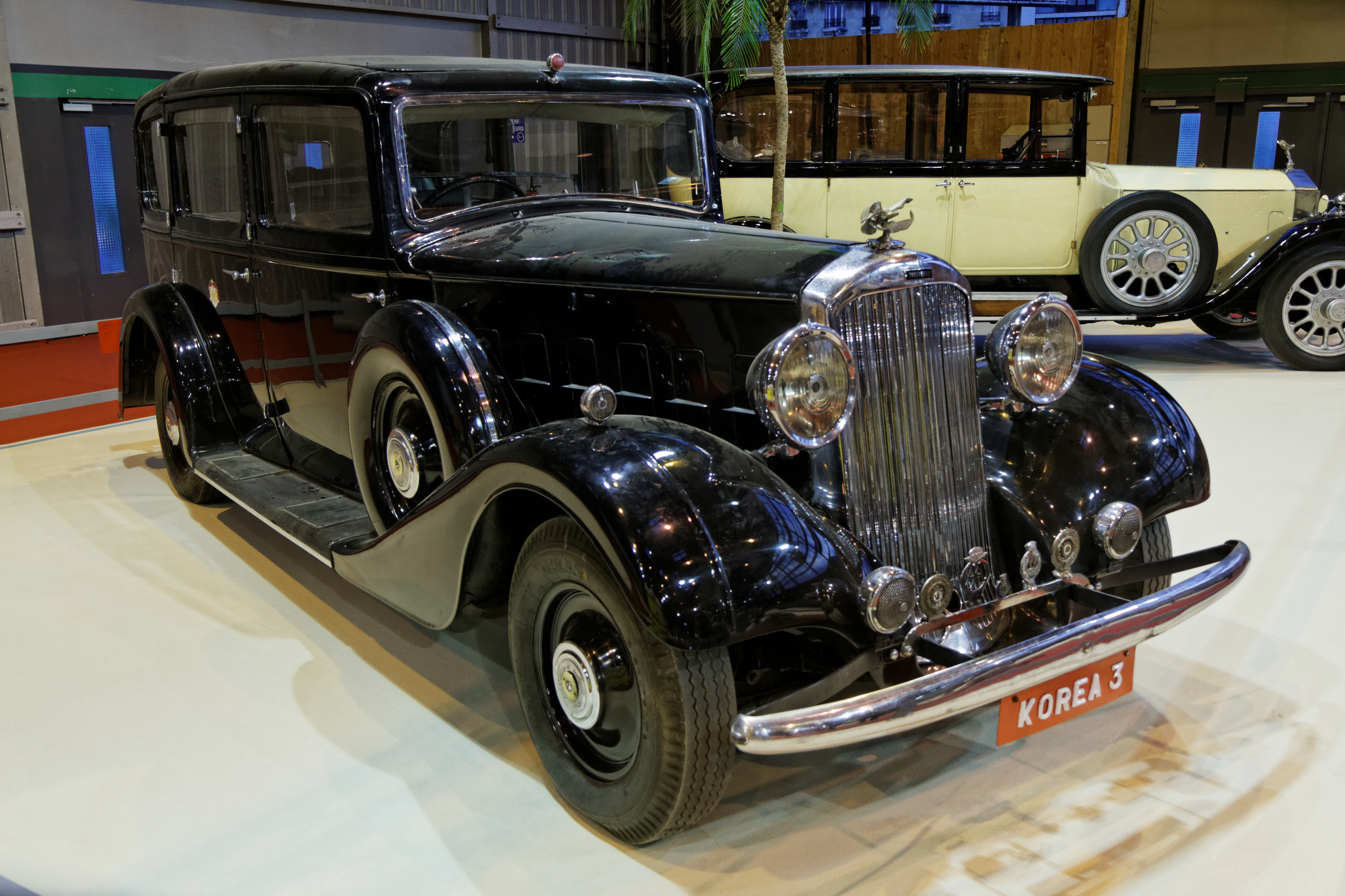 La Humber Snipe 80 Landaulette par Thrupp & Maberley exposée lors du salon Retromobile 2014 A car which belonged to Ramanuj Raja Pratap Singh of the former State of Korea, (or Koriya), a small princely state located in Central India